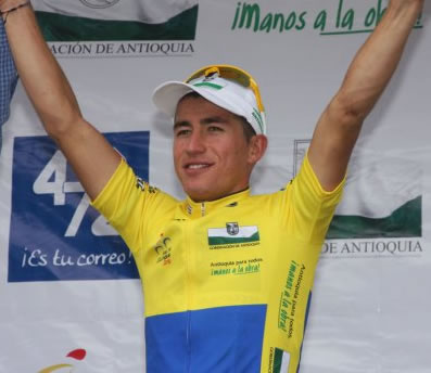 Sergio Luis Henao at tour of colombia.